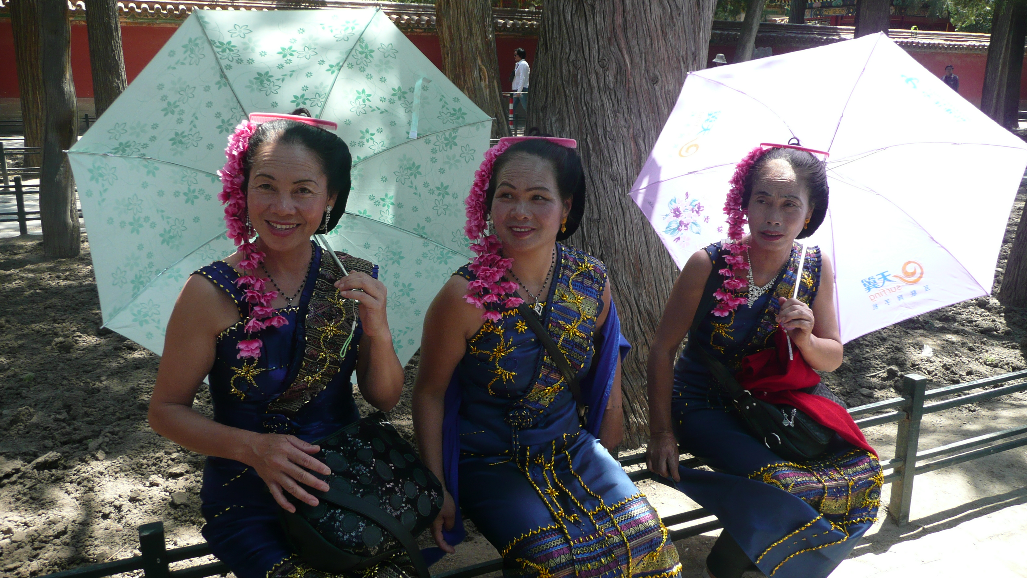 Representatives of the Dai minority in China, during their visit to Beijing